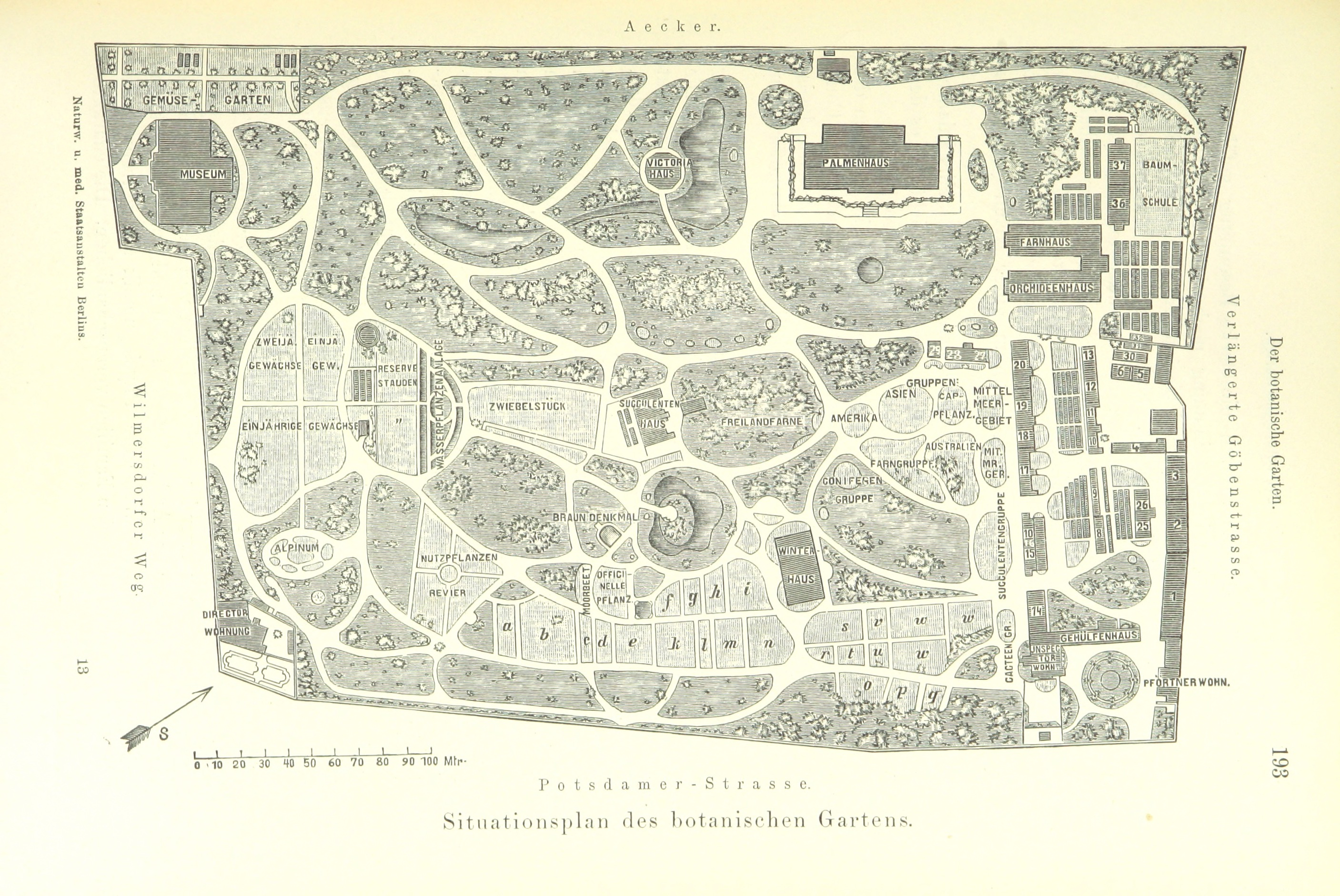 A Map of the Berlin-Dahlem Botanical Garden published in the 1886 Die naturwissenschaftlichen und medicinischen Staatsanstalten Berlins. Festschrift, etc. (Anhang, etc.) by Albert Guttstadt